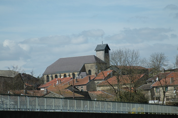 Overview of Pouilly-sur-Meuse, France